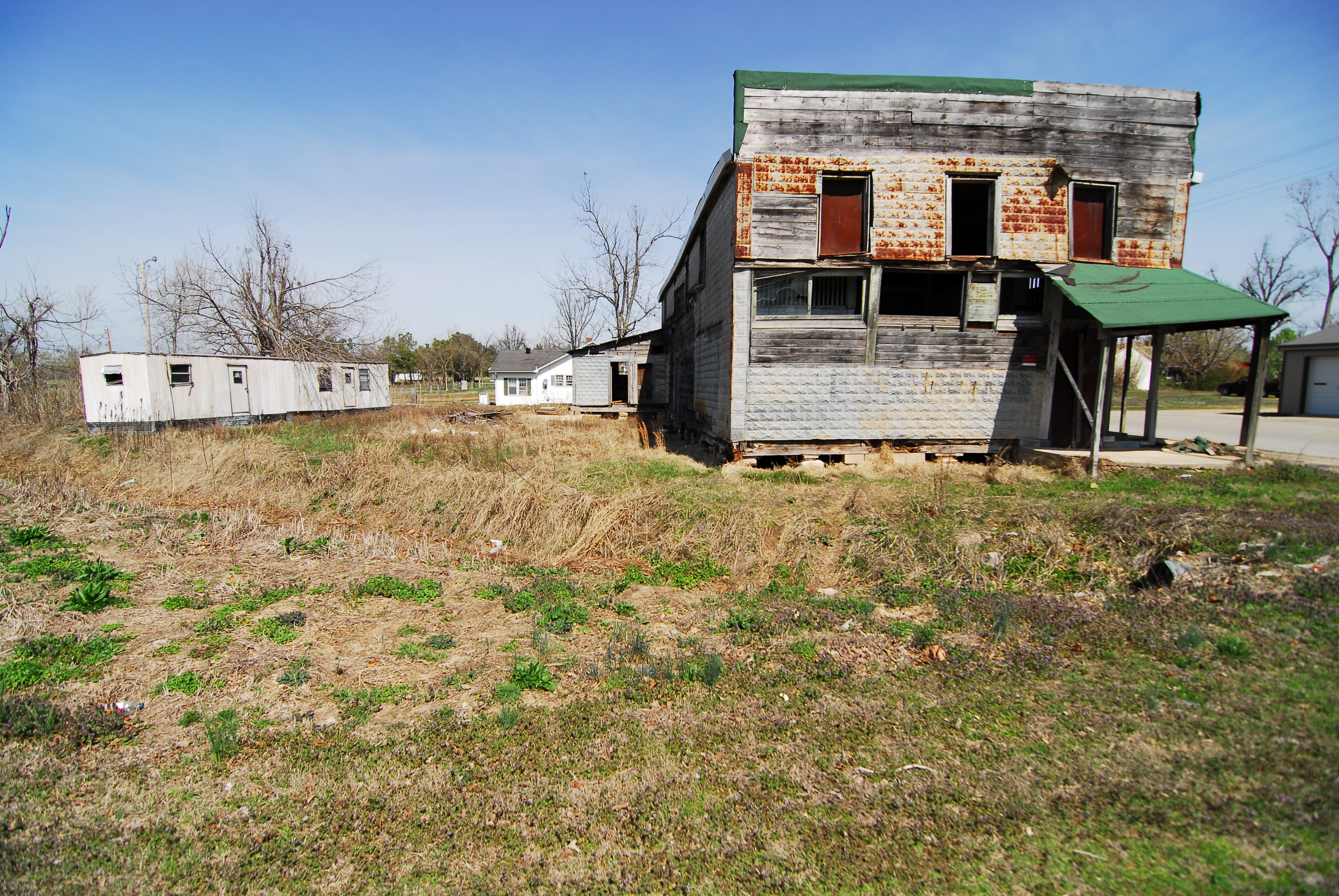 Whats left of "downtown" Lafe